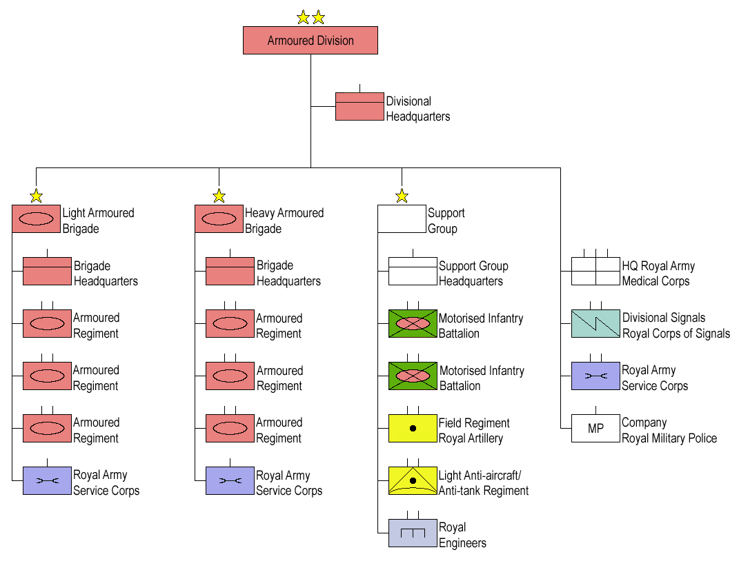 Great Britain World War II Armoured Division Structure 1939